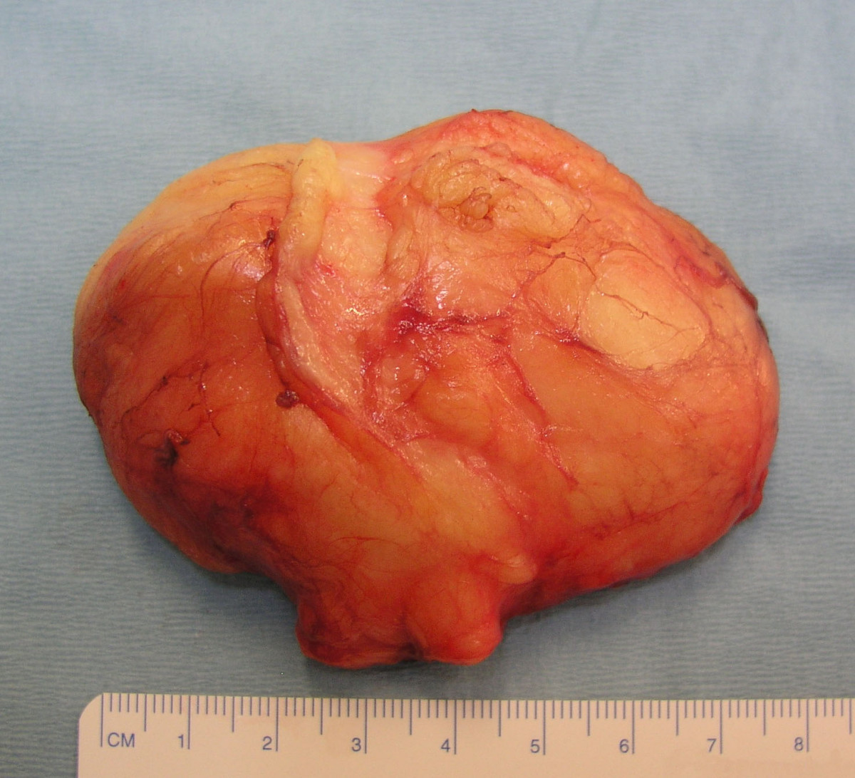 The giant lipoma was excised completely and measured 8 cm × 6 cm × 3 cm..